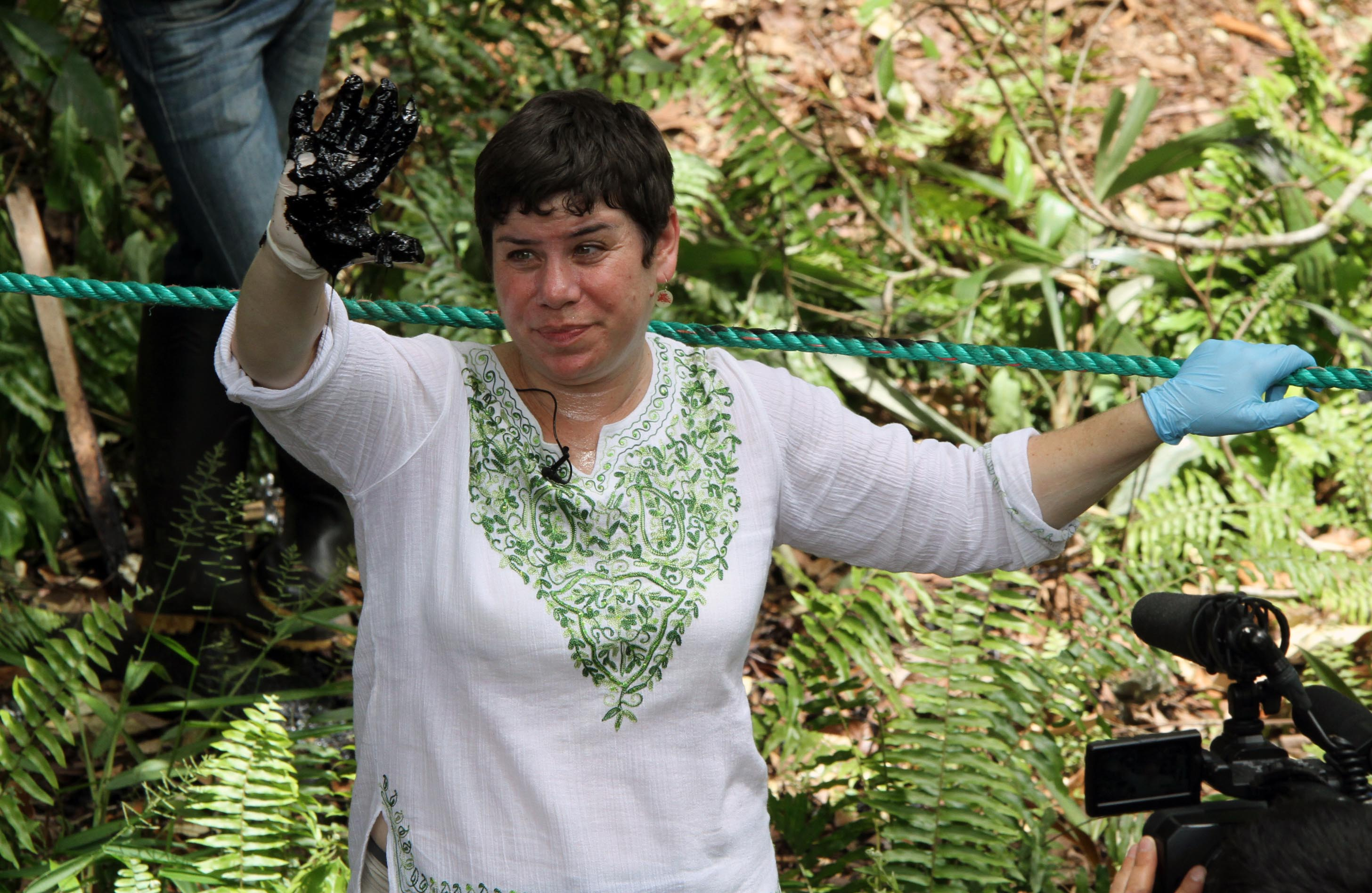 Shushufindi (Sucumbíos). 2013. A visit of the campaign "Chevron's dirty hand" was noticed by the American journalist Antonia Juhasz, and confirmed the contamination left by Chevron in hidden pools of toxic waste in the Ecuadorian Amazon.